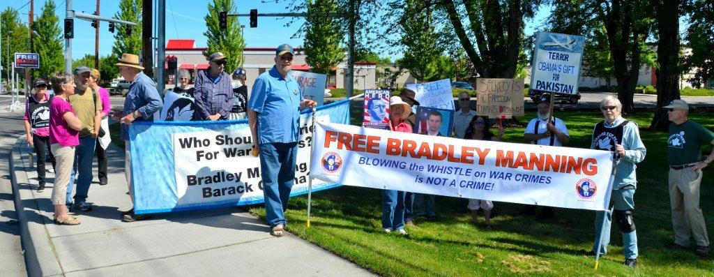 Supporters gathered in Veterans Park in Medford, in southern Oregon and then marched to a bridge over Interstate 5, a major highway, where they hung two big banners and a number of other signs to both the northbound and southbound lanes of traffic.